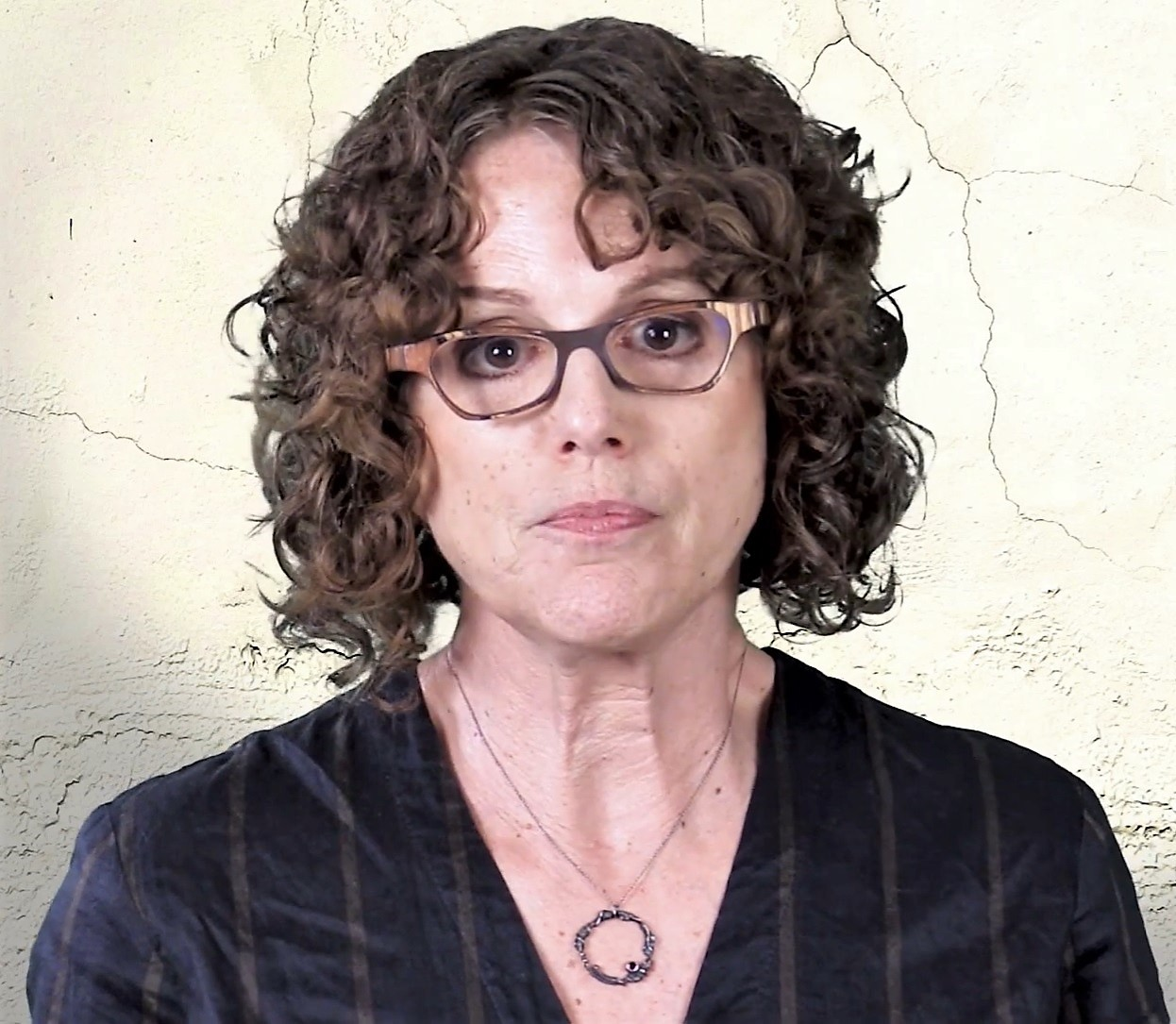 3 Ways to Challenge White Fragility (Featuring Robin DiAngelo) Bestselling author Robin DiAngelo shares three ways white people can challenge white fragility right now. DiAngelo wrote the New York Times bestseller, White Fragility: Why It's So Hard for White People to Talk About Racism. White Fragility is published by Beacon Press, an independent publisher of serious non-fiction that promotes values such as anti-racism. Beacon Press is a department of the Unitarian Universalist Association (UUA). The UUA is the central organization for the Unitarian Universalist (UU) religious movement in the United States. The UUA’s congregations are committed to Seven Principles and ground their religion in many diverse source traditions, as diverse as science, poetry, scripture, and personal experience. Learn More about Beacon Press: Subscribe: Facebook: Twitter: Get more videos from the Unitarian Universalist Association: Vimeo